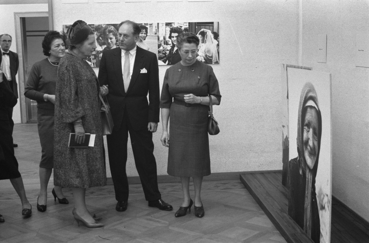 Queen Juliana visits the photo exhibition "Women of Israel", Queen Juliana during the tour with Sam Waagenaar and Mrs. S.E. van Emden